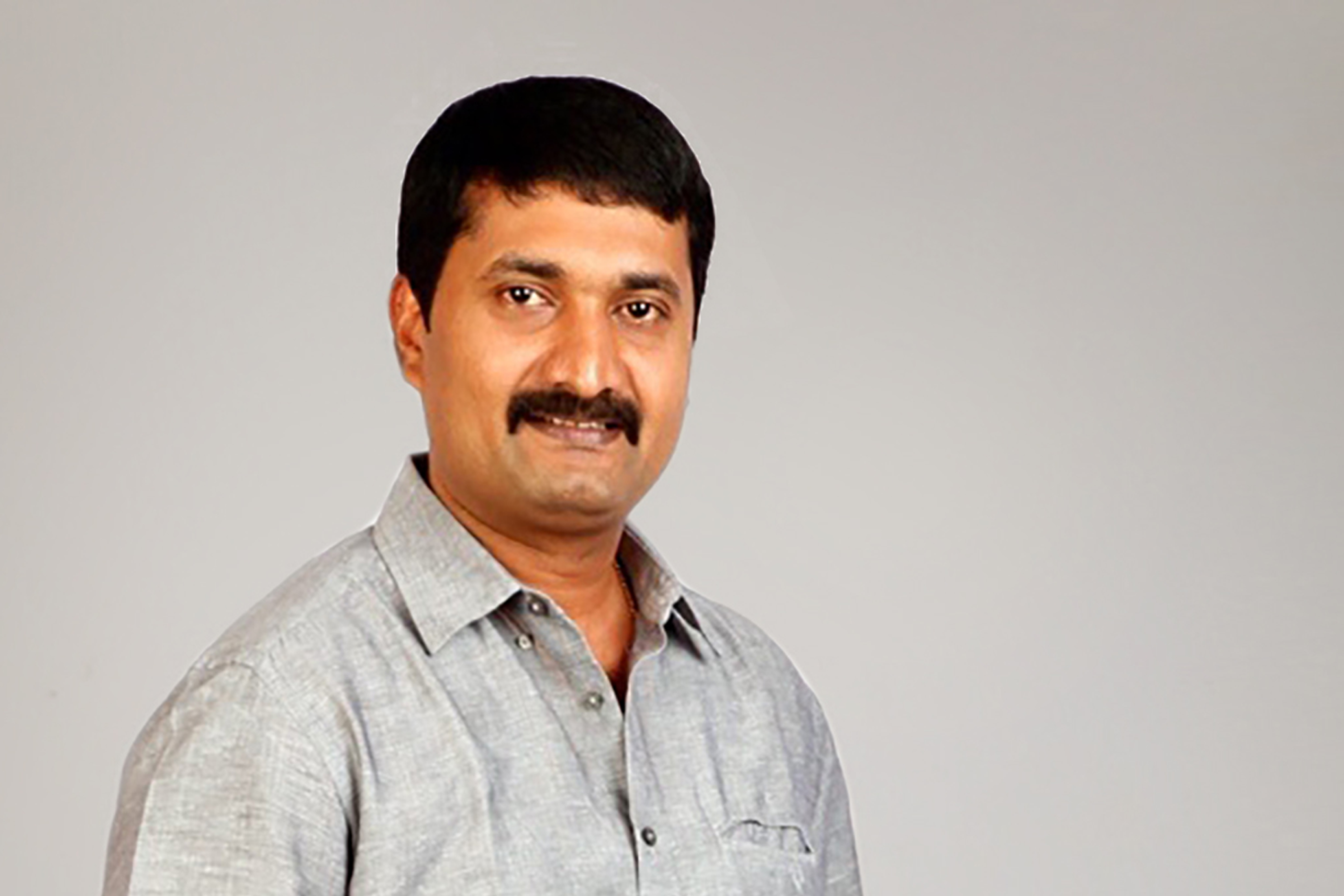 CR Manohar